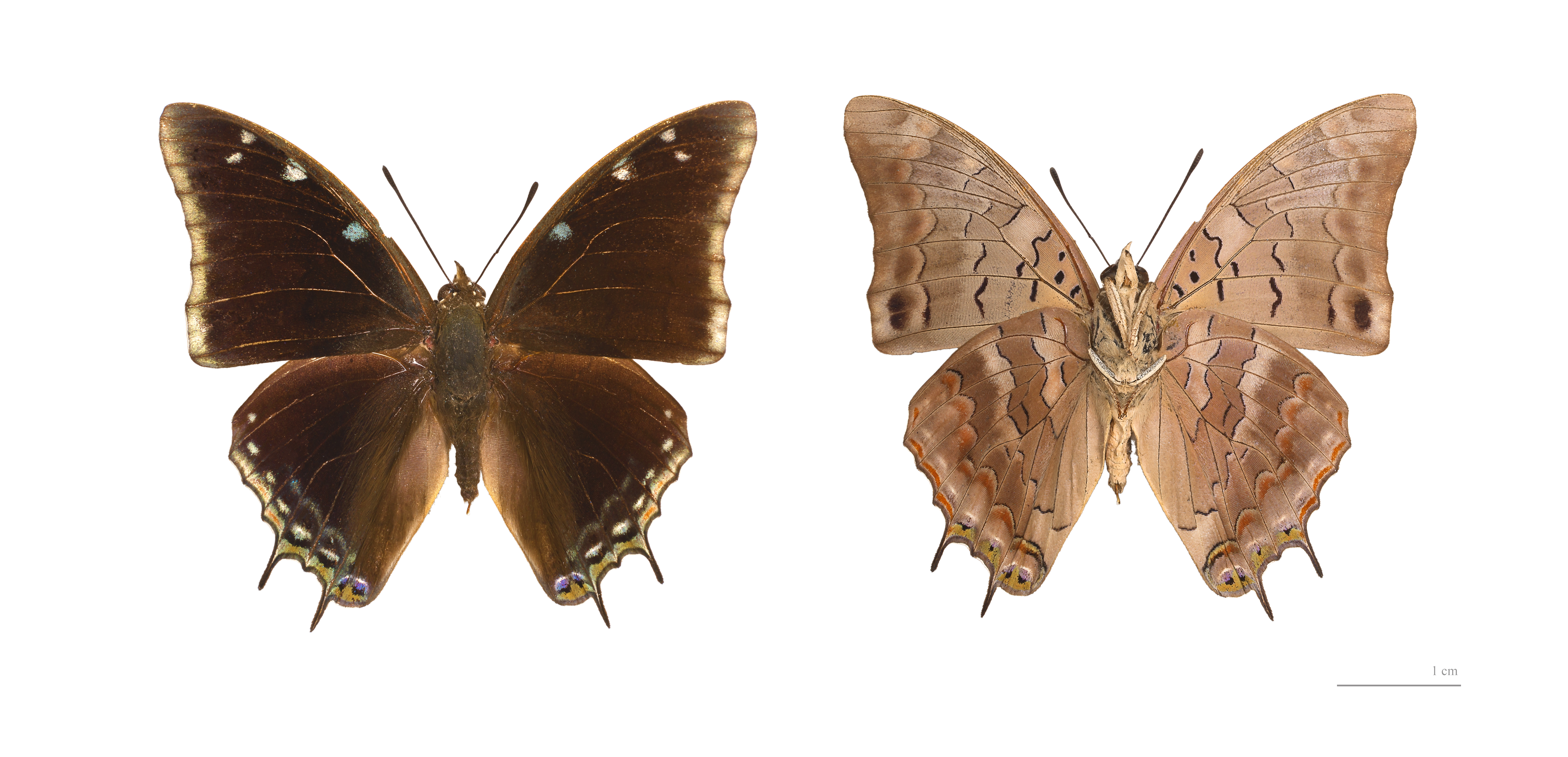 ♂ - Two views of same specimen Locality: Batalimon, Central African Republic.